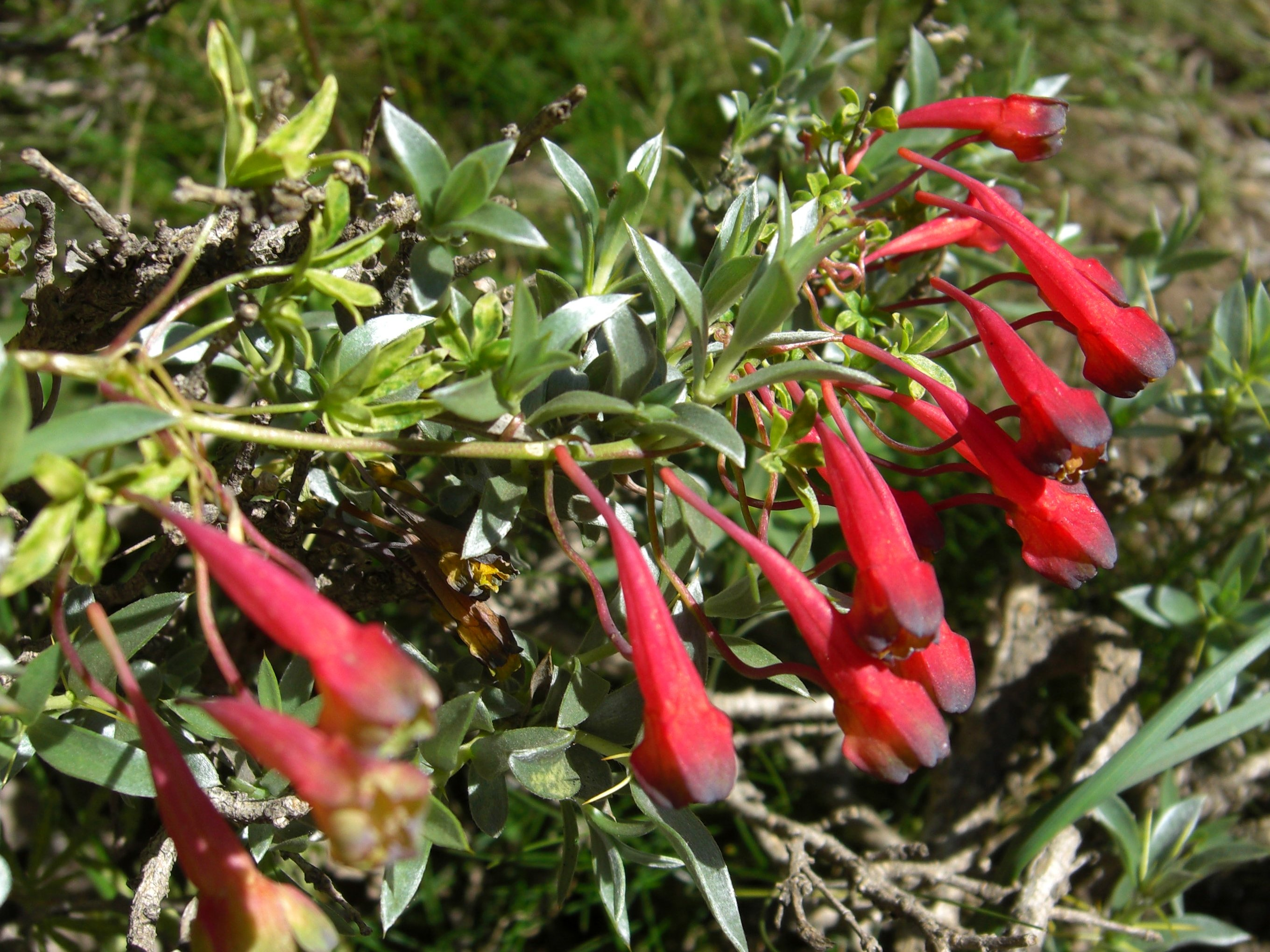 Tropaeolum tricolor Sweet – 20081121.7 – mountains east of Santiago, Chile – Thanks, benito.fotos, for the ID! Without the family I had no chance.